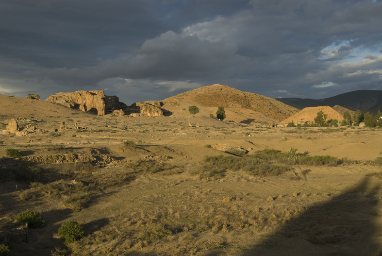 Tempelberg in Chimtou, Tunesien